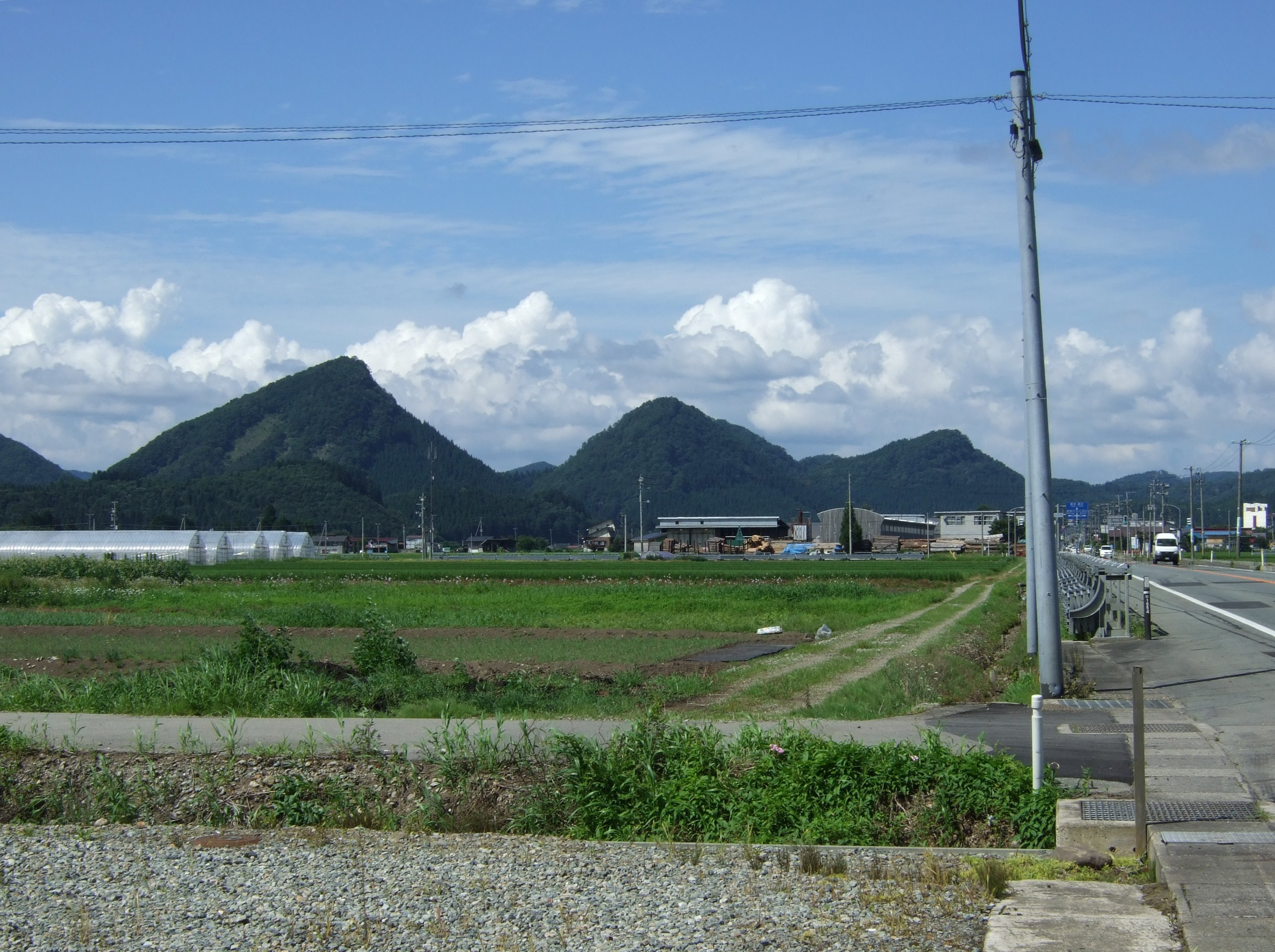 Kaneyama-sanpou ("3 mountains", Yakusi-san, Naka-no-mori, Kumataka-yama) in Kaneyama, Mogami district, Yamagata, Japan.